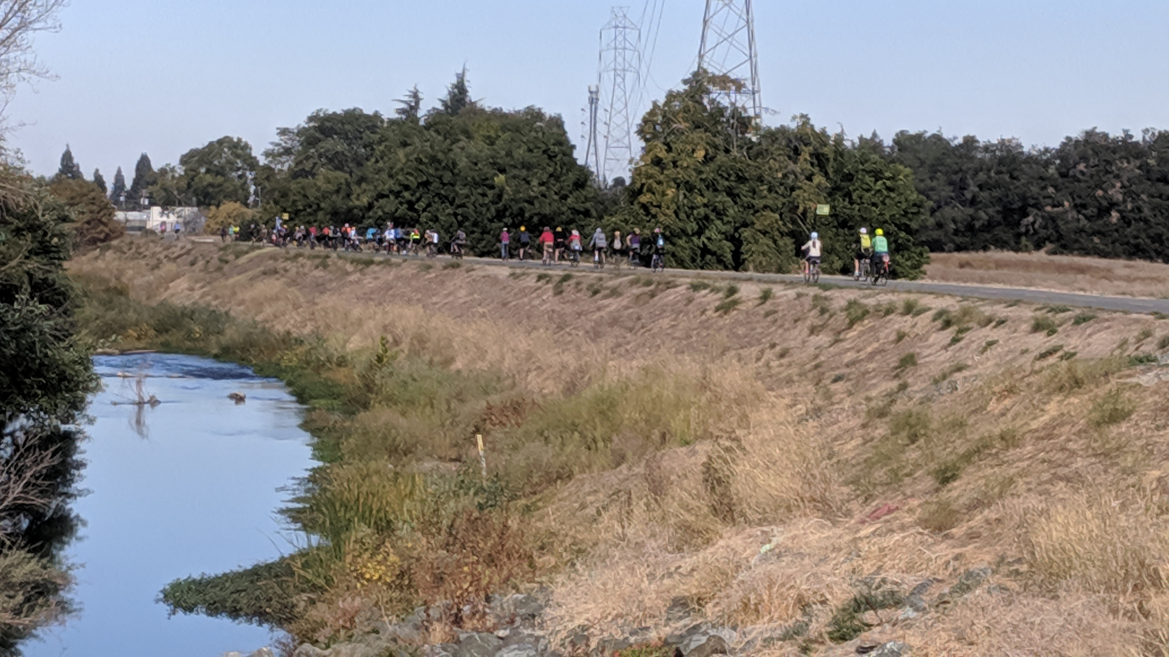 Bike to the Bay 2019 bicycle ride event on the Guadalupe River Trail in San Jose, California. The ride was led by Santa Clara County Supervisor Dave Cortese in cooperation with San Jose Bike Party. More of the group was behind the photographer. The ride occurred on October 13, 2019.